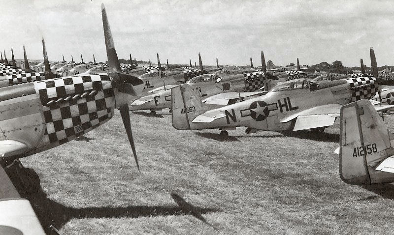 Three squadrons (82nd, 83rd and 84th) of P-51Ds of the 78th FG at Duxford airdrome, England, 7th June 1945